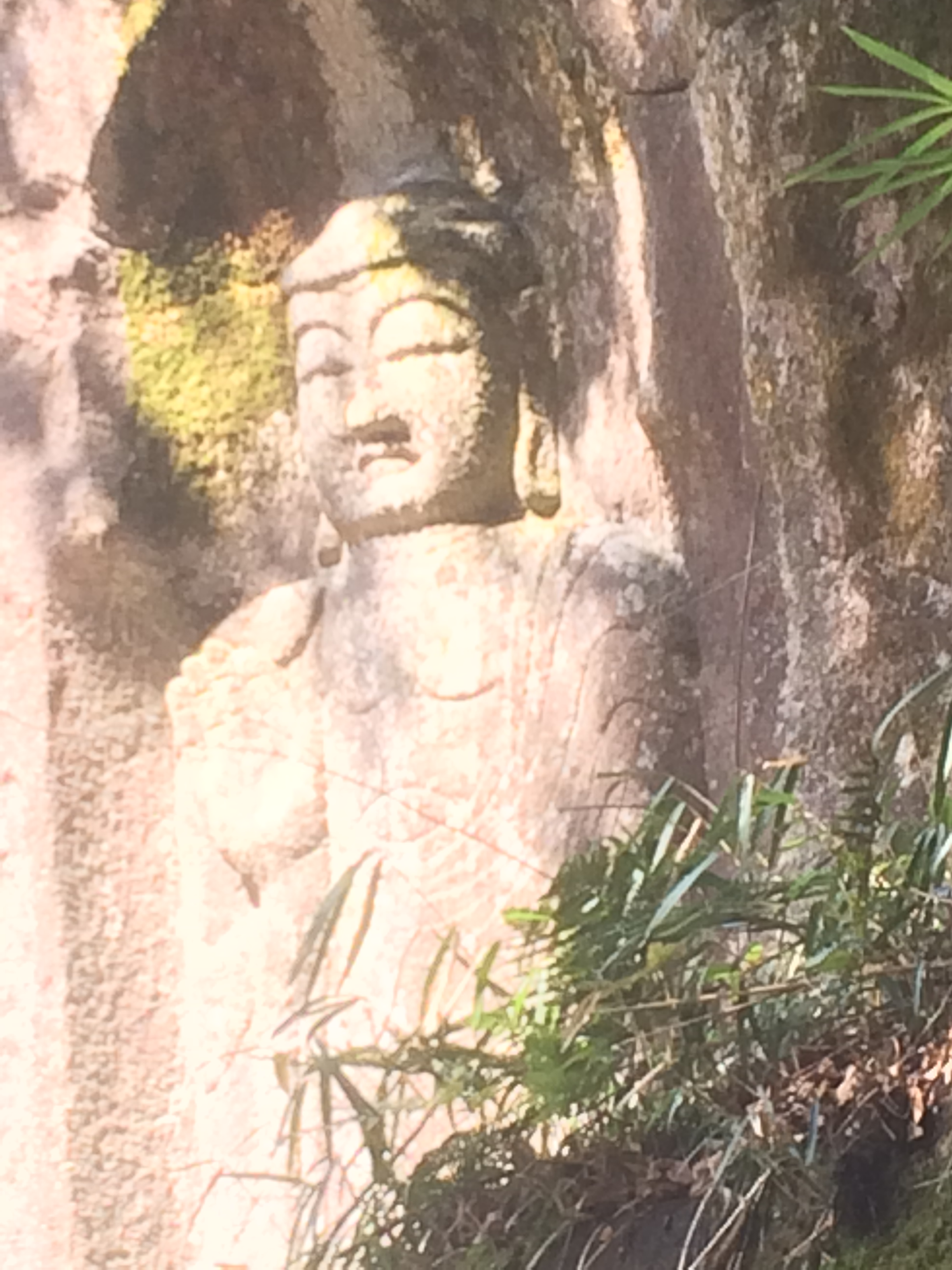 mirokumagaibutu_wazukatyo